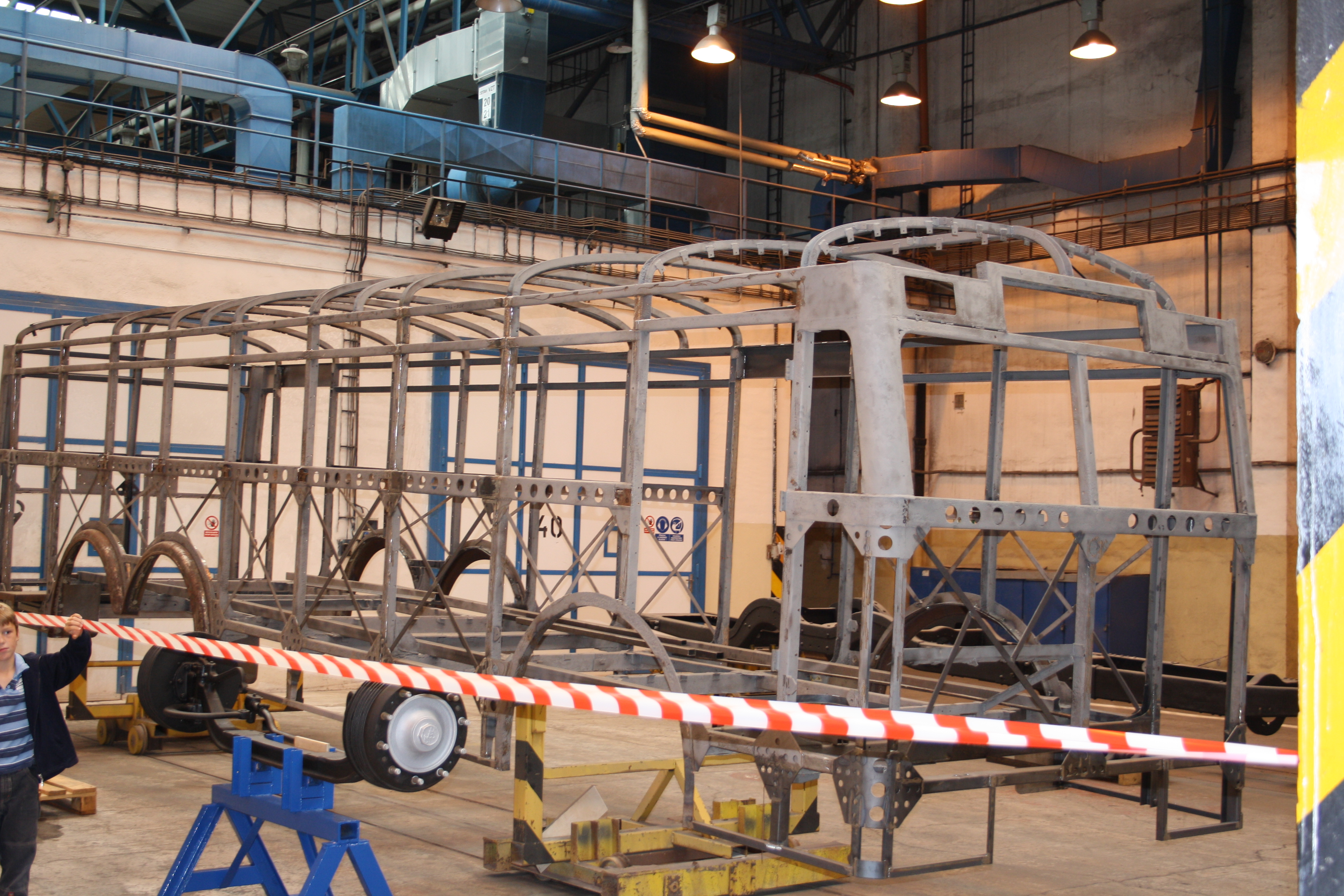 Parts of Praga TOT on exhibition 2011